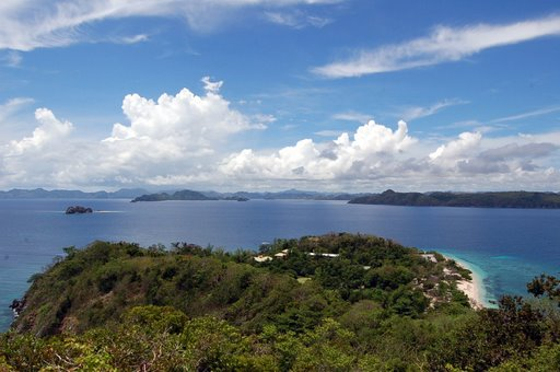 Busuanga Island. Busuanga from top of Dimakya Island.